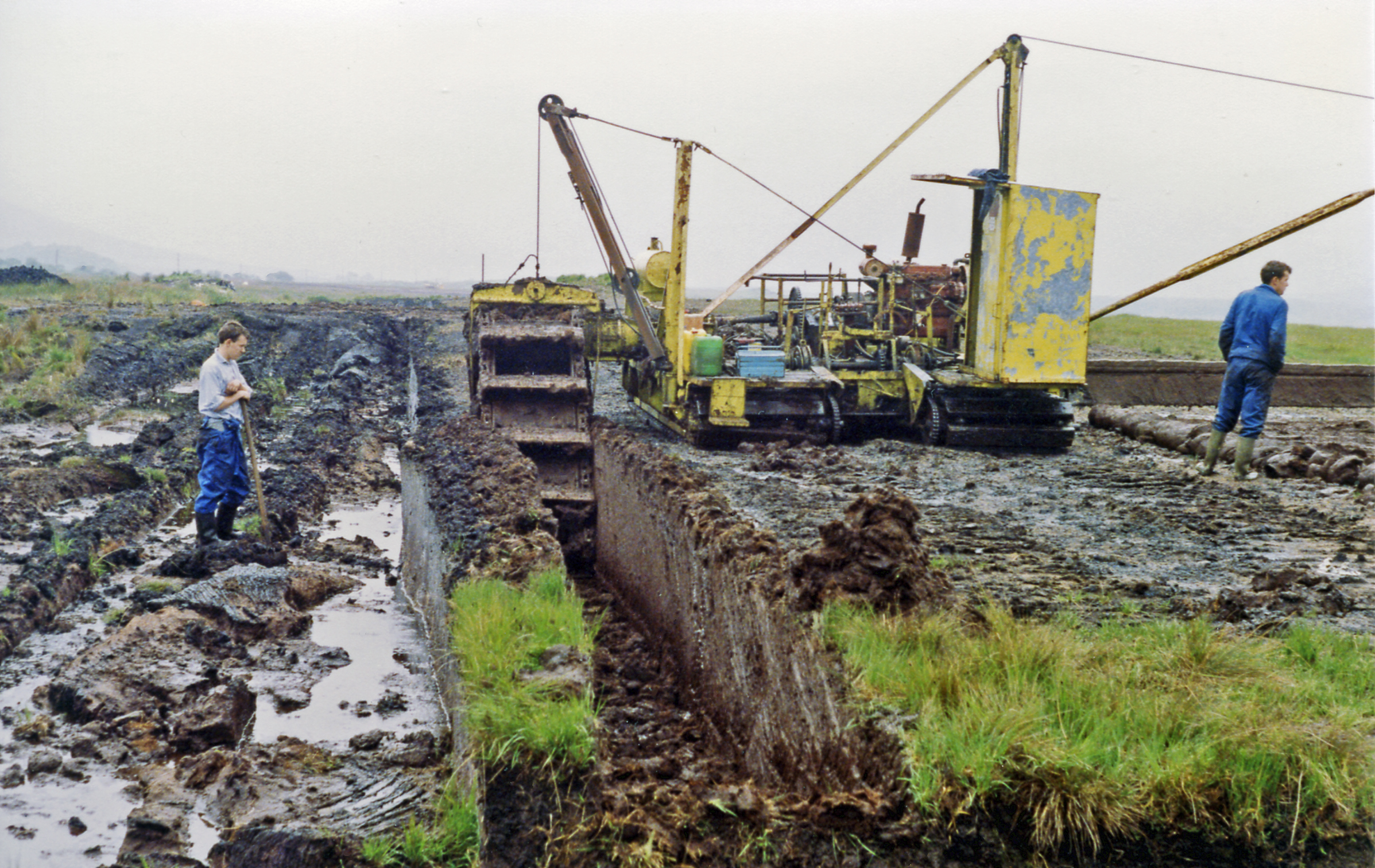 Turf-cutting in Connemara. Near Maam Crossing, by the road to Leenane, Co. Galway.